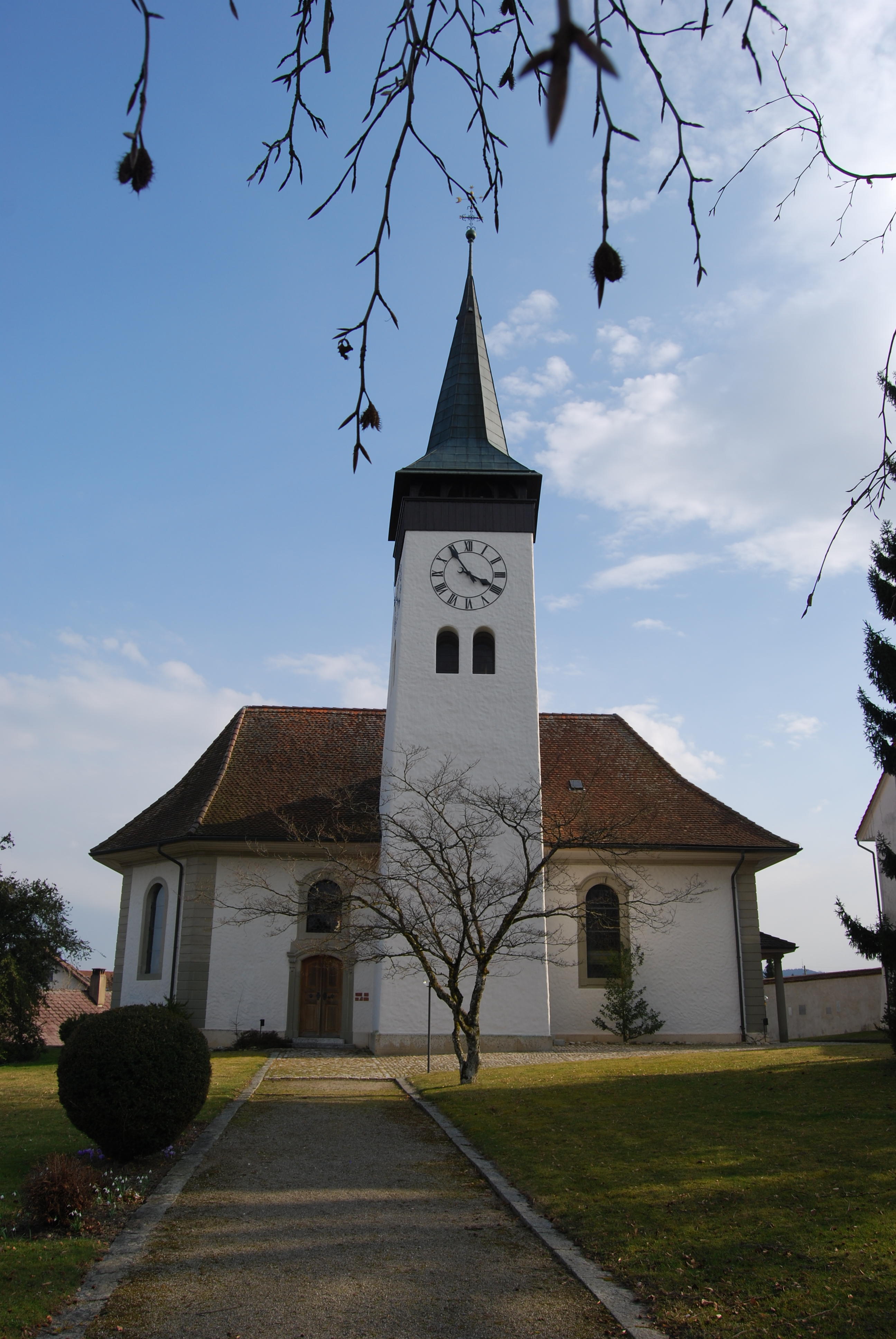 Protestant church of Thunstetten, canton of Bern, Switzerland